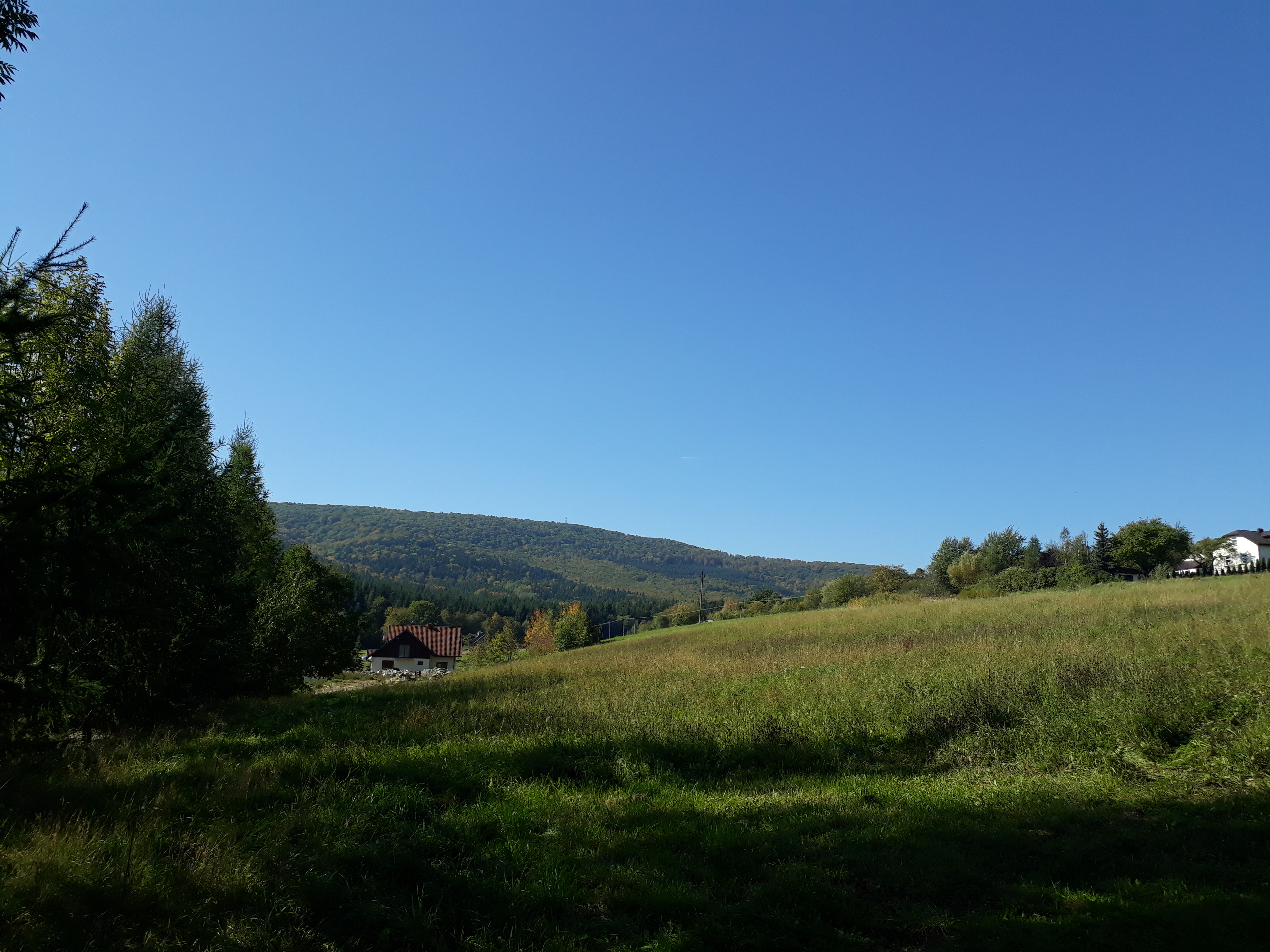 Jelenia Góra widok z wsi Bystrej